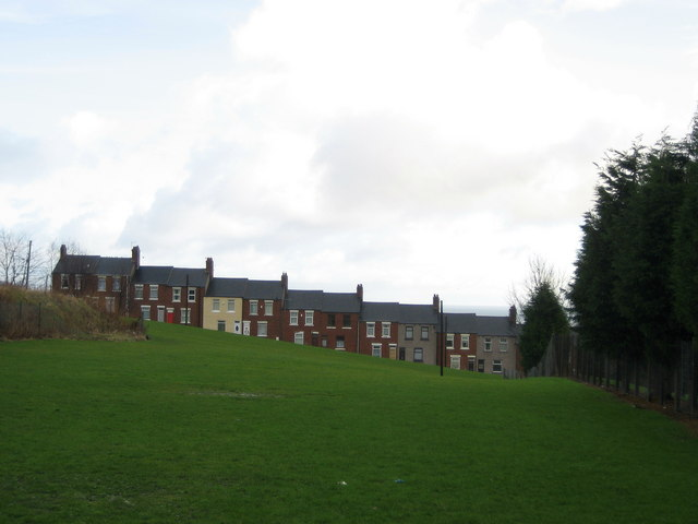 Avon Street, Easington Colliery Terraced Housing in stepped formation